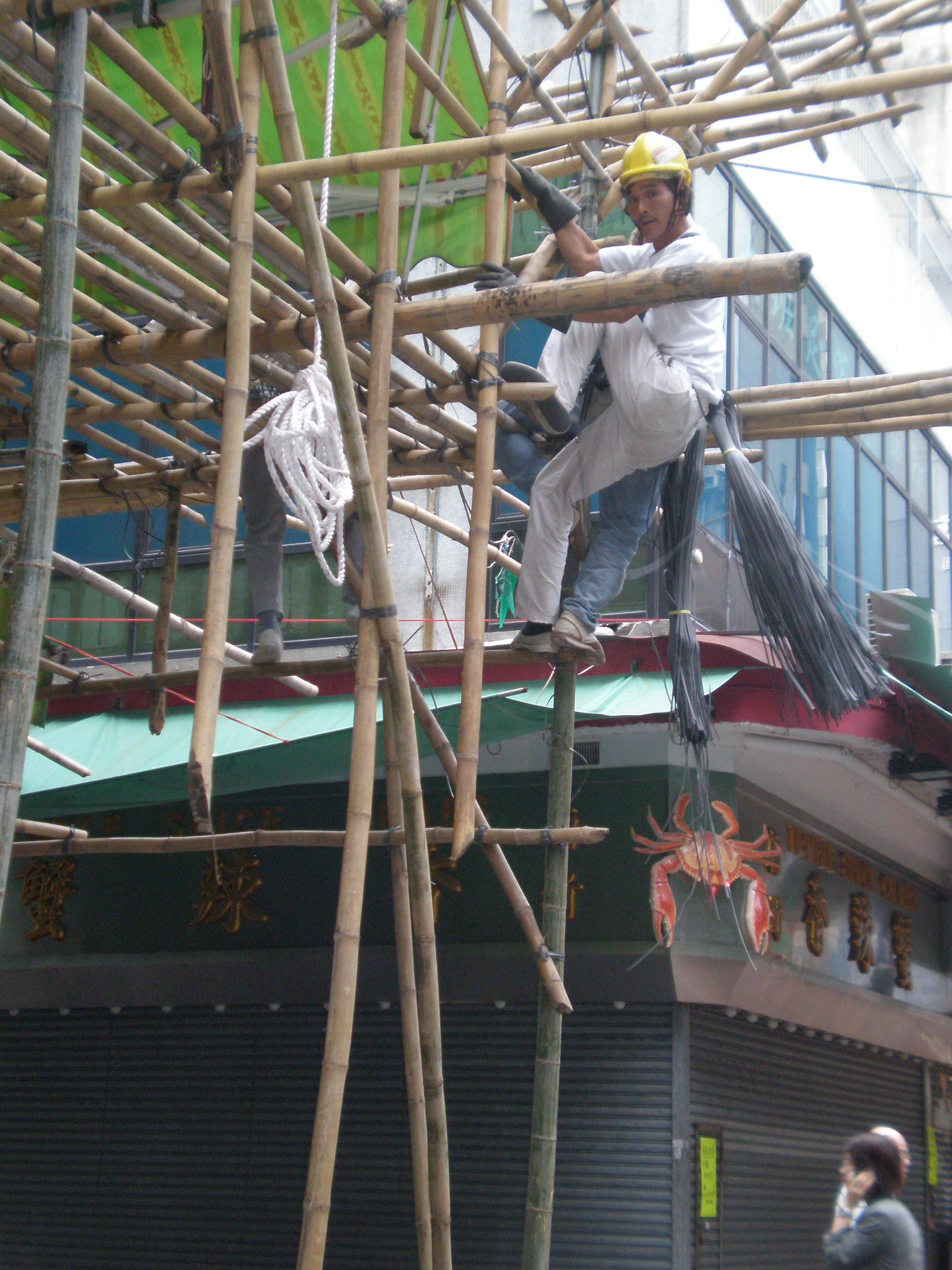 Bamboo scaffolding in use on Temple Street in Kowloon.